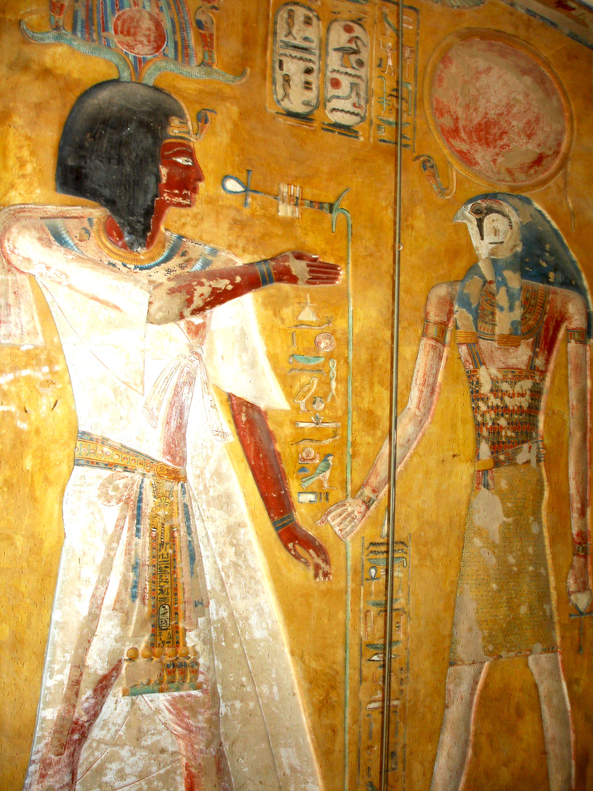 Reliefs painted in Siptah's tomb, Valley of Kings.